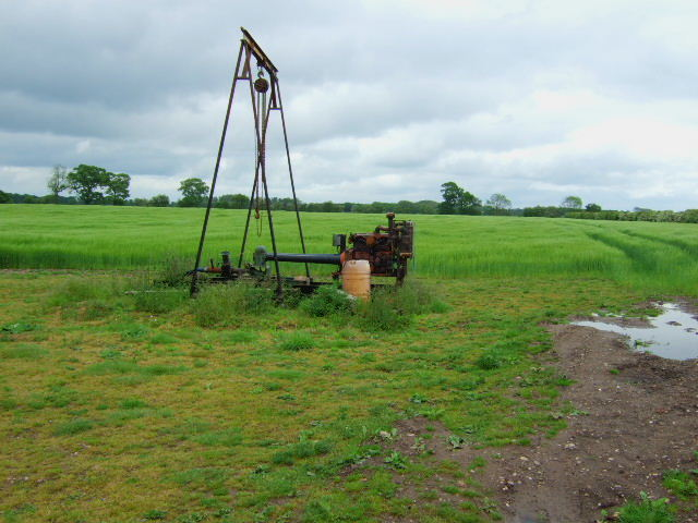 Groundwater irrigation pump. Used for watering crops in times of drought.